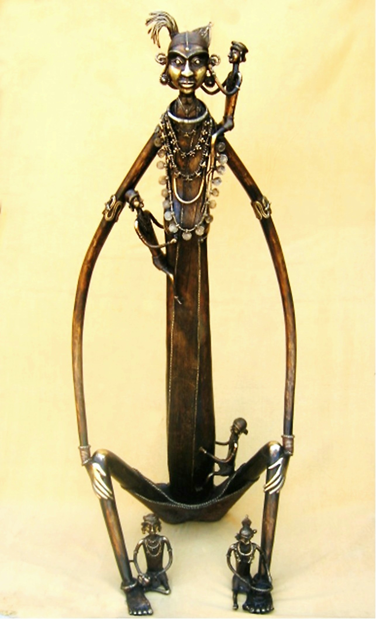 Indian Village Mother with five childern